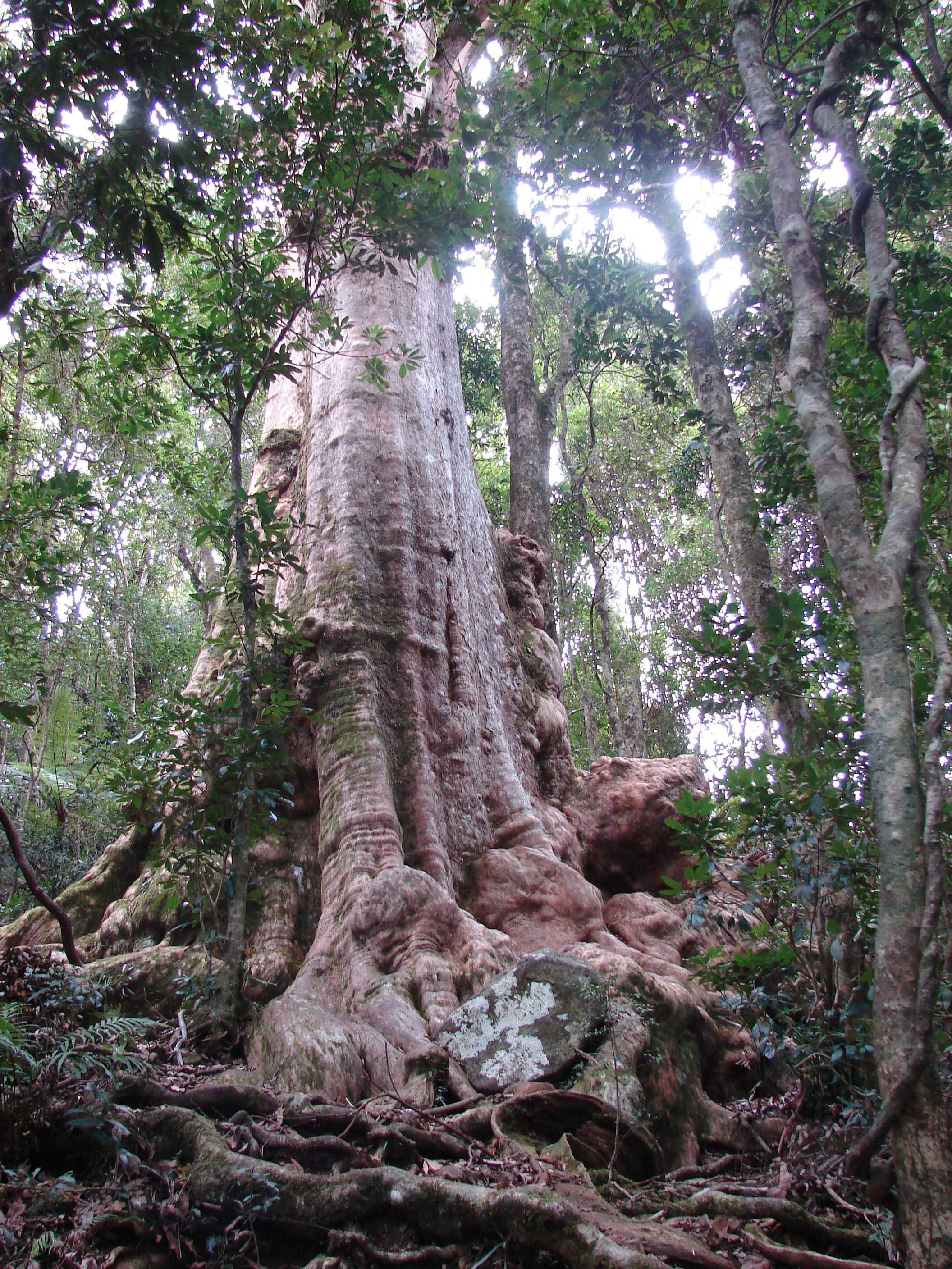 Lophostemon confertus, Family : Myrtaceae. Stands in Lamington National Park, QLD, Australia. the same Brush Box tree from another side : On Explore 12 Apr. 2007 #485 THE TALLEST TREES IN AUSTRALIA See where this picture was taken. [?]